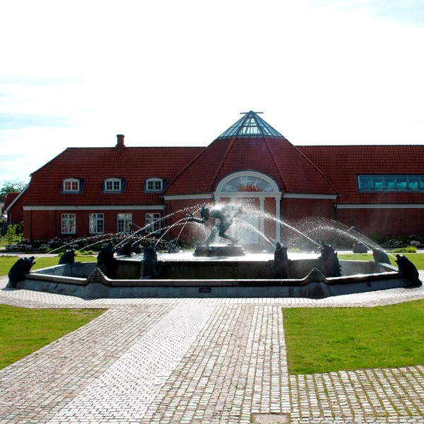 Vejen Art Museum, Denmark. In the middle of the picture, the sculpture En Trold, der vejrer Kristenkød ("A troll scenting Christian flesh") by Niels Hansen Jacobsen is shown.